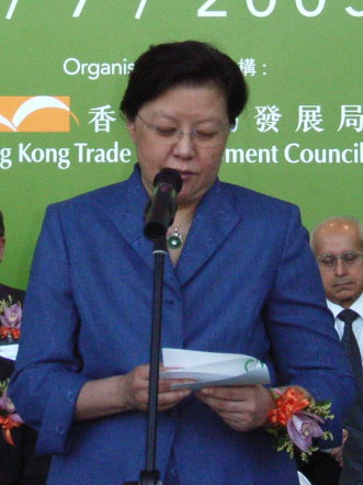 The opening ceremony of Summer Sourcing Show for Gifts, Houseware and Toys at the HKCEE, July 2005. Rita Fan, President of the Legislative Council, is giving a speech.